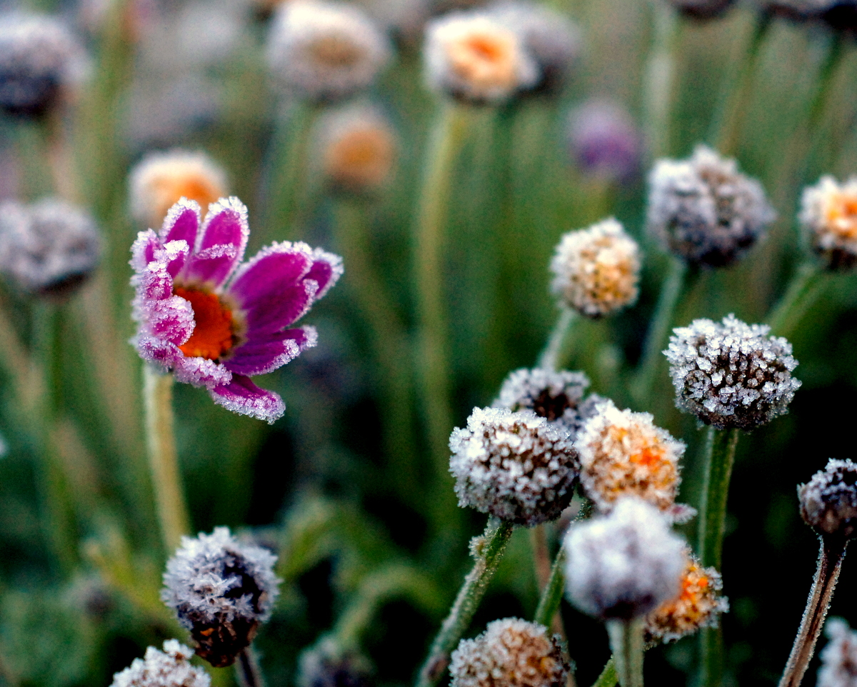 A flower in focus with frost on the tips of its petals.